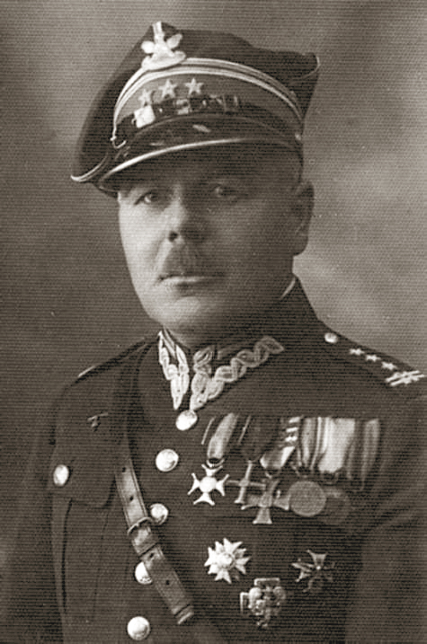 Władysław Rozlau (1884- ) - Colonel of the Polish Army